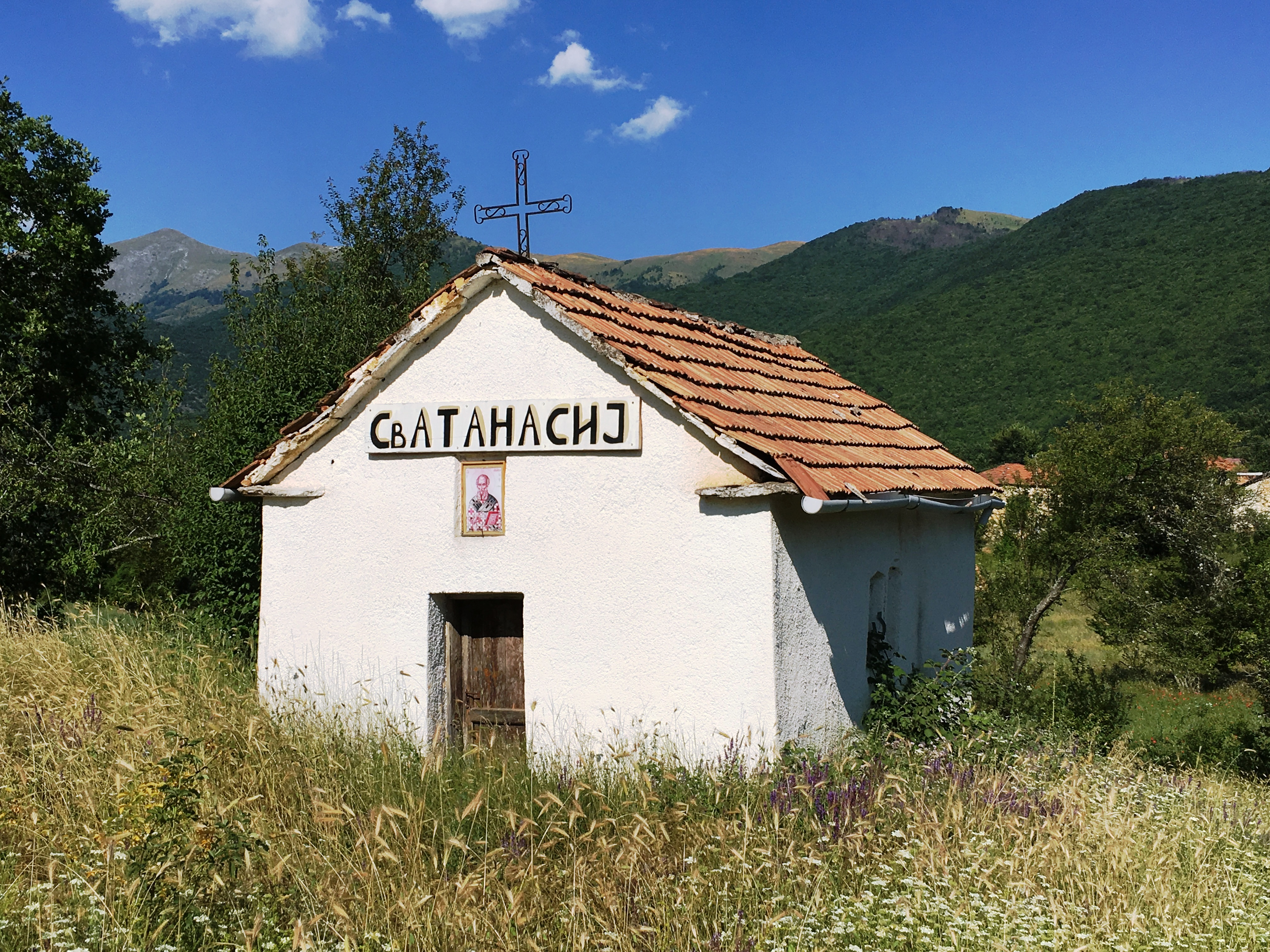 St. Athanasius Church in the village of Lokvica